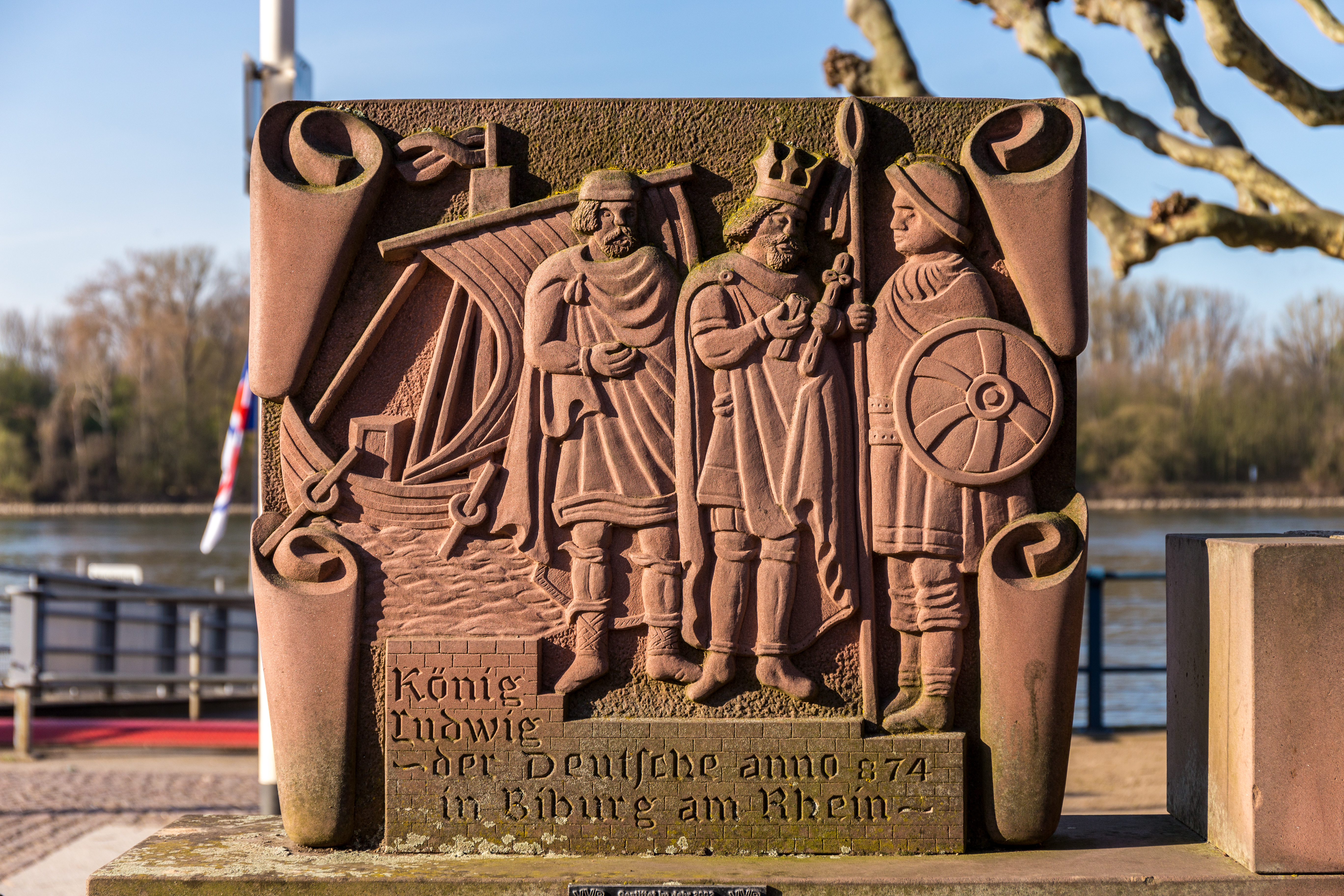 Monument to the visit of King Louis the German in Biburg am Rhein in 874 at the Rhine in Biebrich (district of Wiesbaden, Hesse).